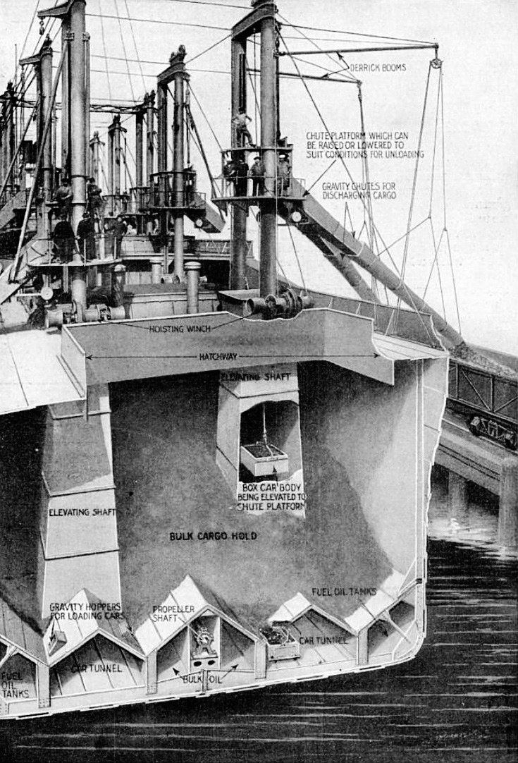 Cutaway illustration of the Italian steamer SS Milazzo, the largest cargo ship and the largest collier in the world at the time of her construction in 1916, showing her unusual cargo unloading system. She was sunk by Austro-Hungarian submarine U-14 in August 1917.